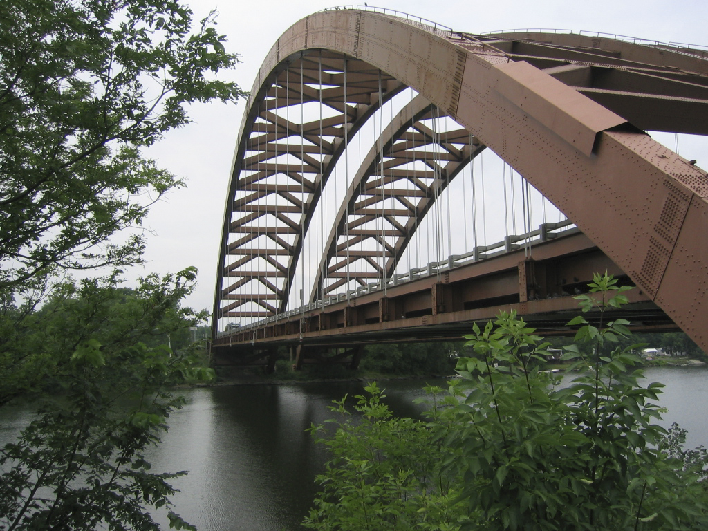 View of the Thaddeus Kosciusko Bridge (Twin Bridges) on Interstate 87 (Northway). Taken from the bike path along the Mohawk river looking north.